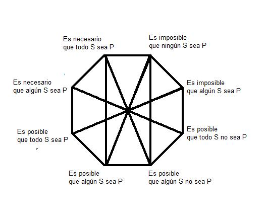 Cuadro octogonal de oposición modal